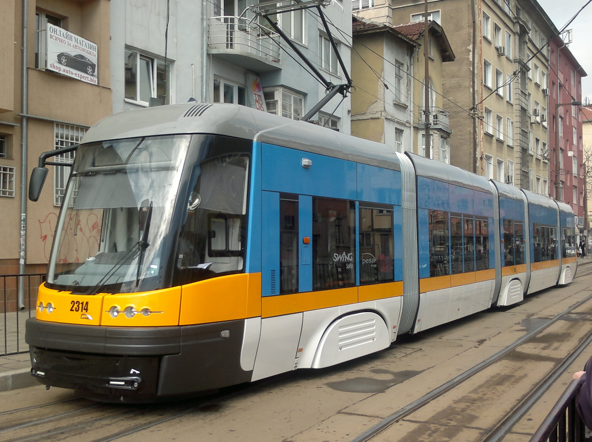 Tram PESA 122NaSF in Sofia